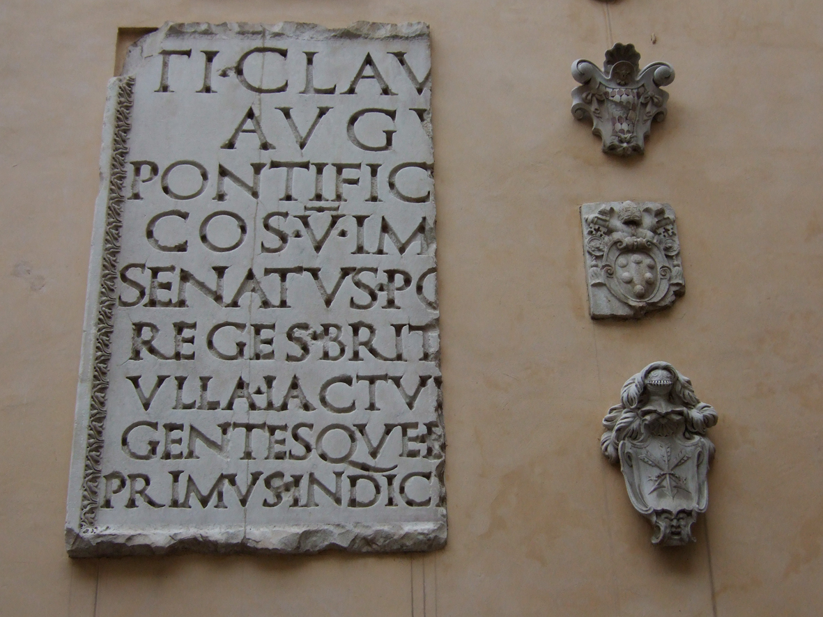 Crests and part of an old inscription (notice bronze traps in letters) on a wall in Capitoline Museum, Rome, Italy